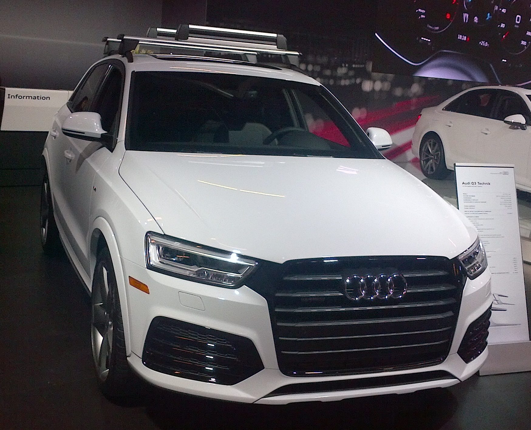 2016 Audi Q3 photographed in Montreal, Quebec, Canada at the Salon International de l’auto de Montréal 2016.